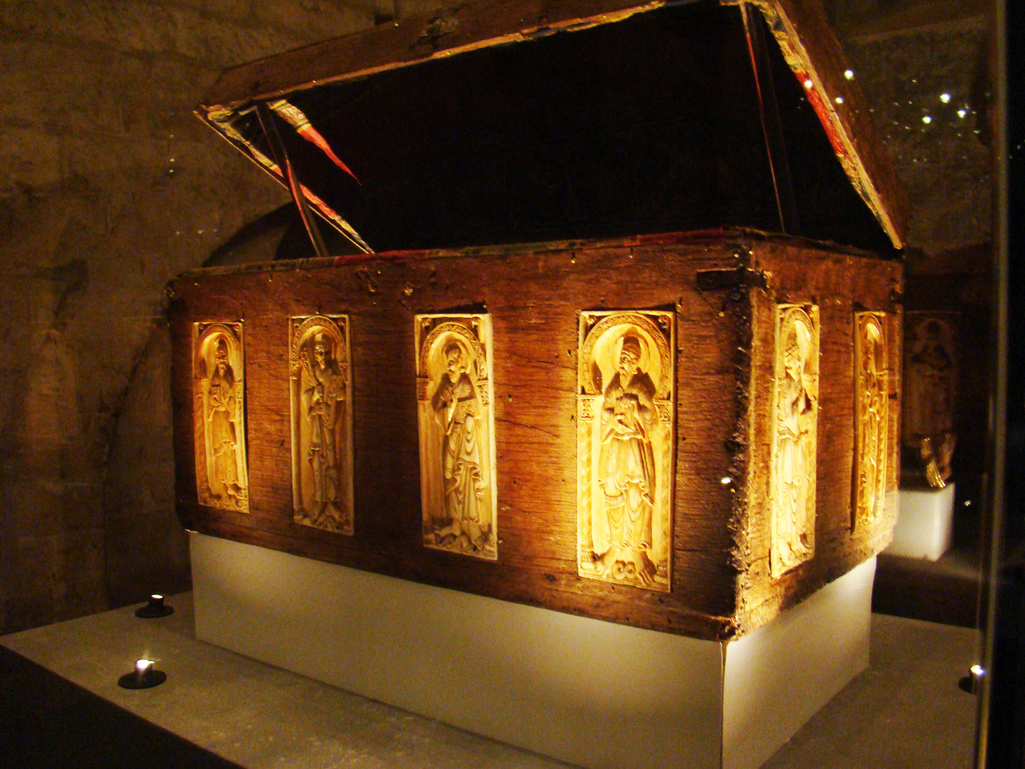 The Ark of the Ivories (also named Chest of San Isidro de León), is the oldest artefact remaining from the workshop of ivory in León, Spain. Its construction was ordered by the leonese king Fernando I and queen Sancha, to be given as a gift to the Collegium of San Isidoro of León to preserve John the Baptist's jaw (one of the many in the christian world) and the body of the martyr child Pelayo. Currently the ark is kept in the museum of this collegium.